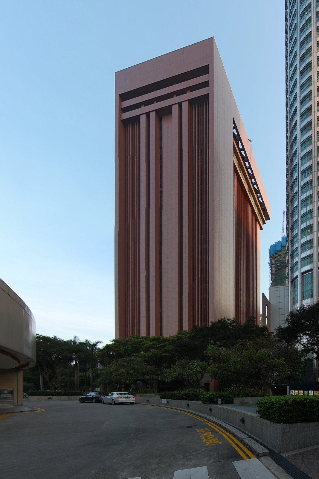 The MAS Building at 10 Shenton Way, Singapore.